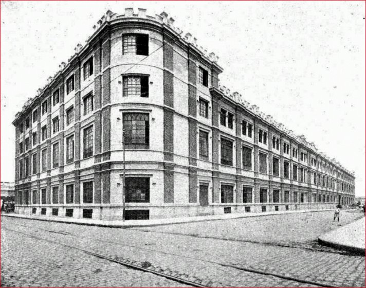 Establecimiento principal (administración y fábrica) de la empresa Pedro Vasena e Hijos. Ca. 1920. Foto tomada desde la calle La Rioja (vías del tranvía) y el pasaje Barcala. Buenos Aires.